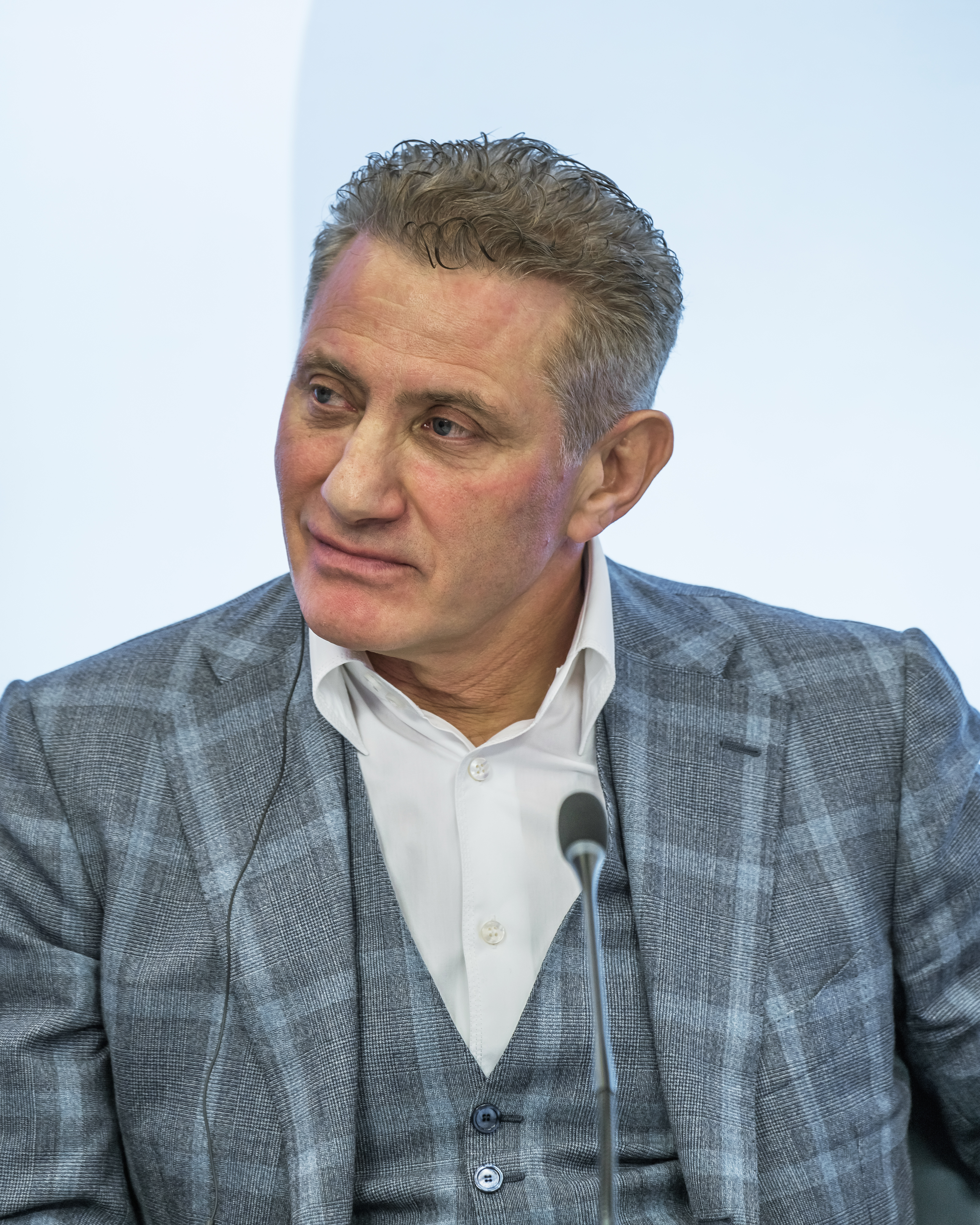 Boris Rotenberg (b. 1957) is a Russian businessman. Photo taken at RT press center, Moscow.